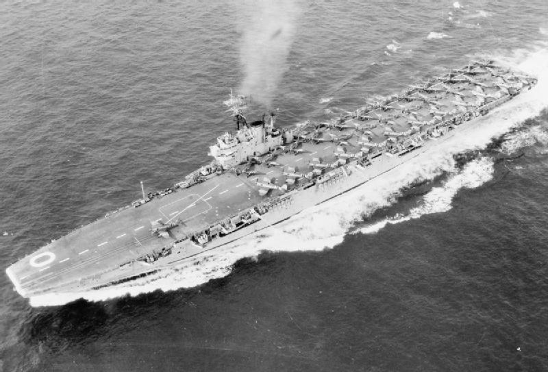 The Royal Navy aircraft carrier HMS Ocean (R68) on passage between Korea and Japan. Ocean twice deployed to Korea, firstly from May to October 1952 and then from May to November 1953.